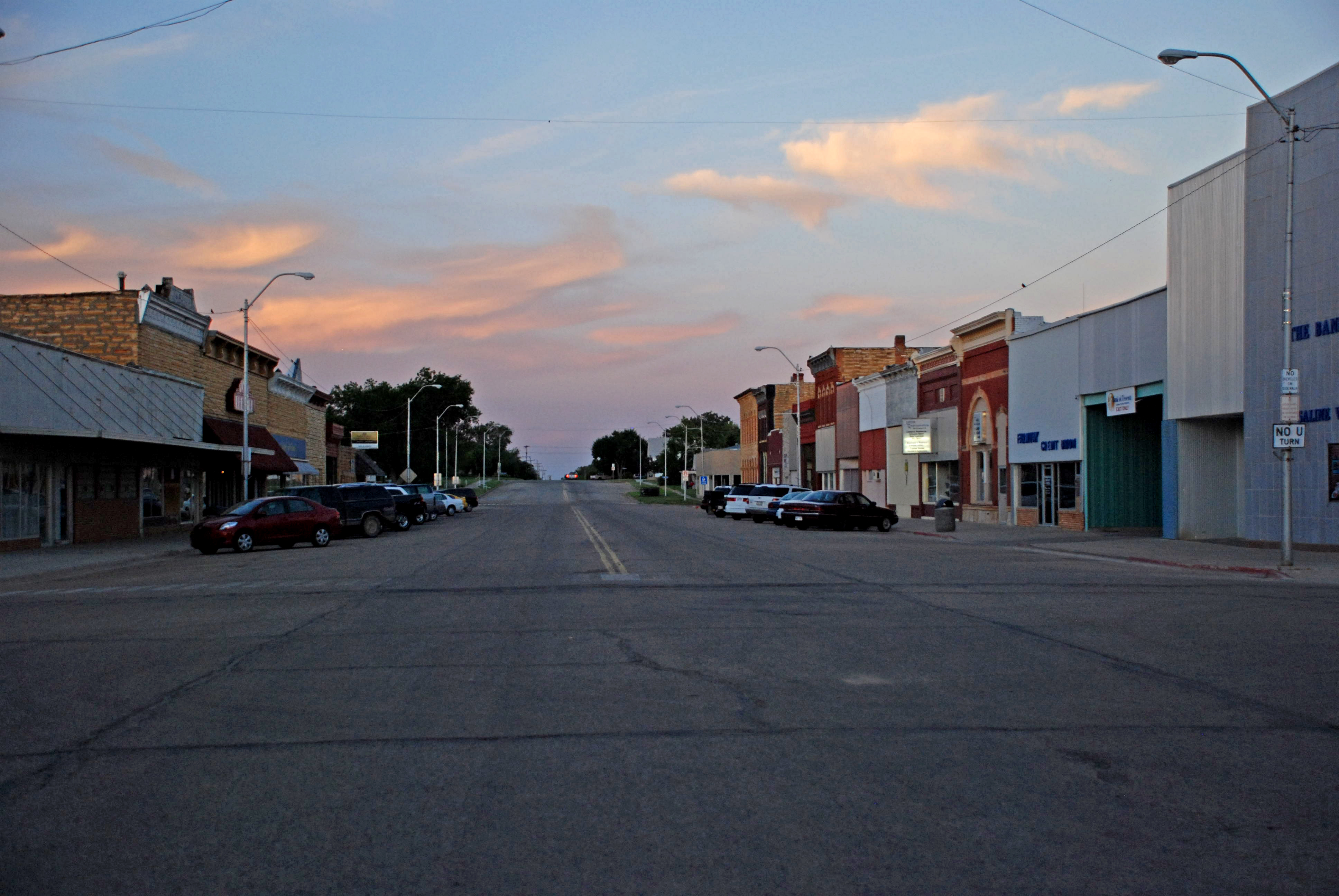 Small town evening